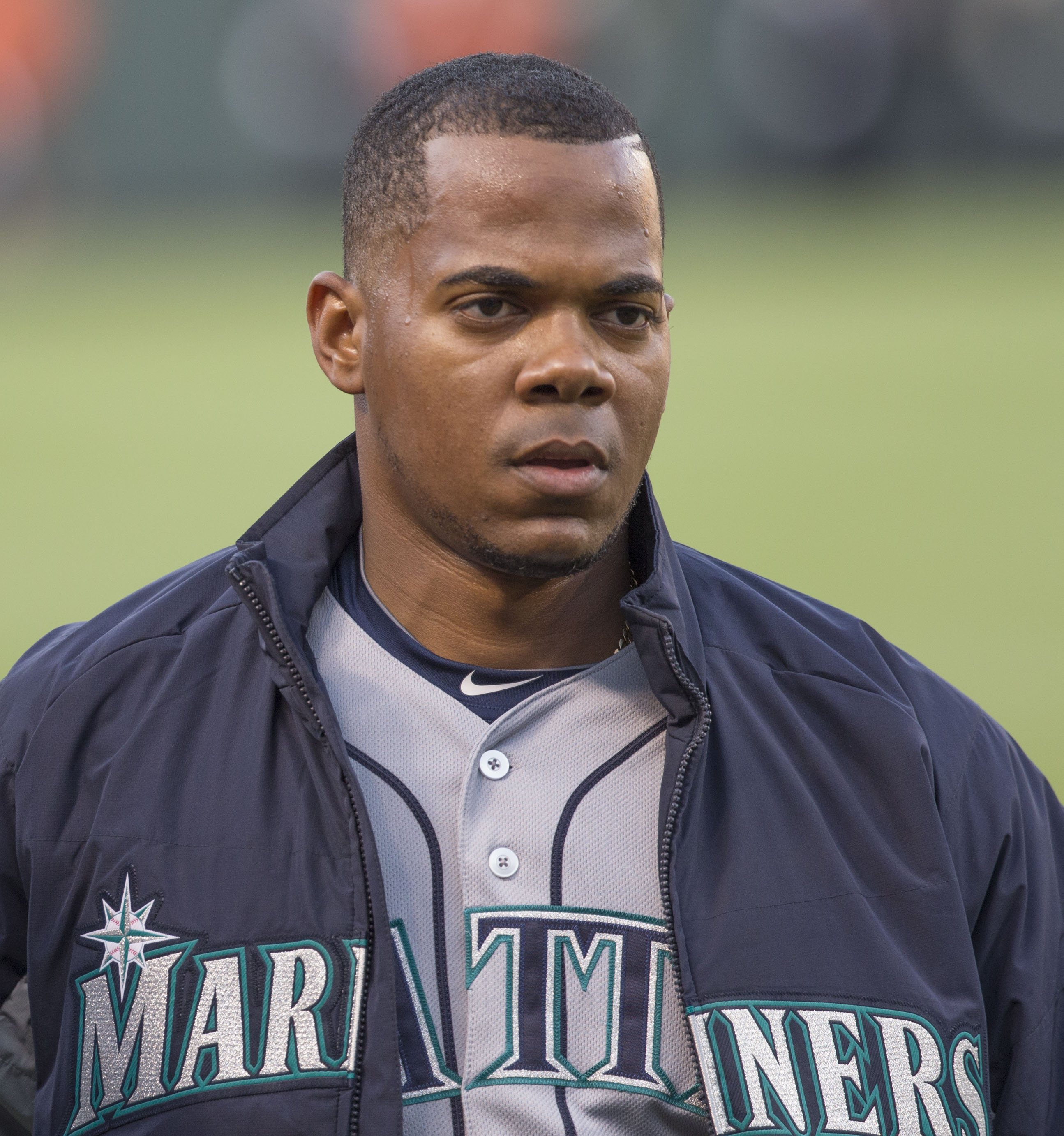 Mariners at Orioles 5/20/15